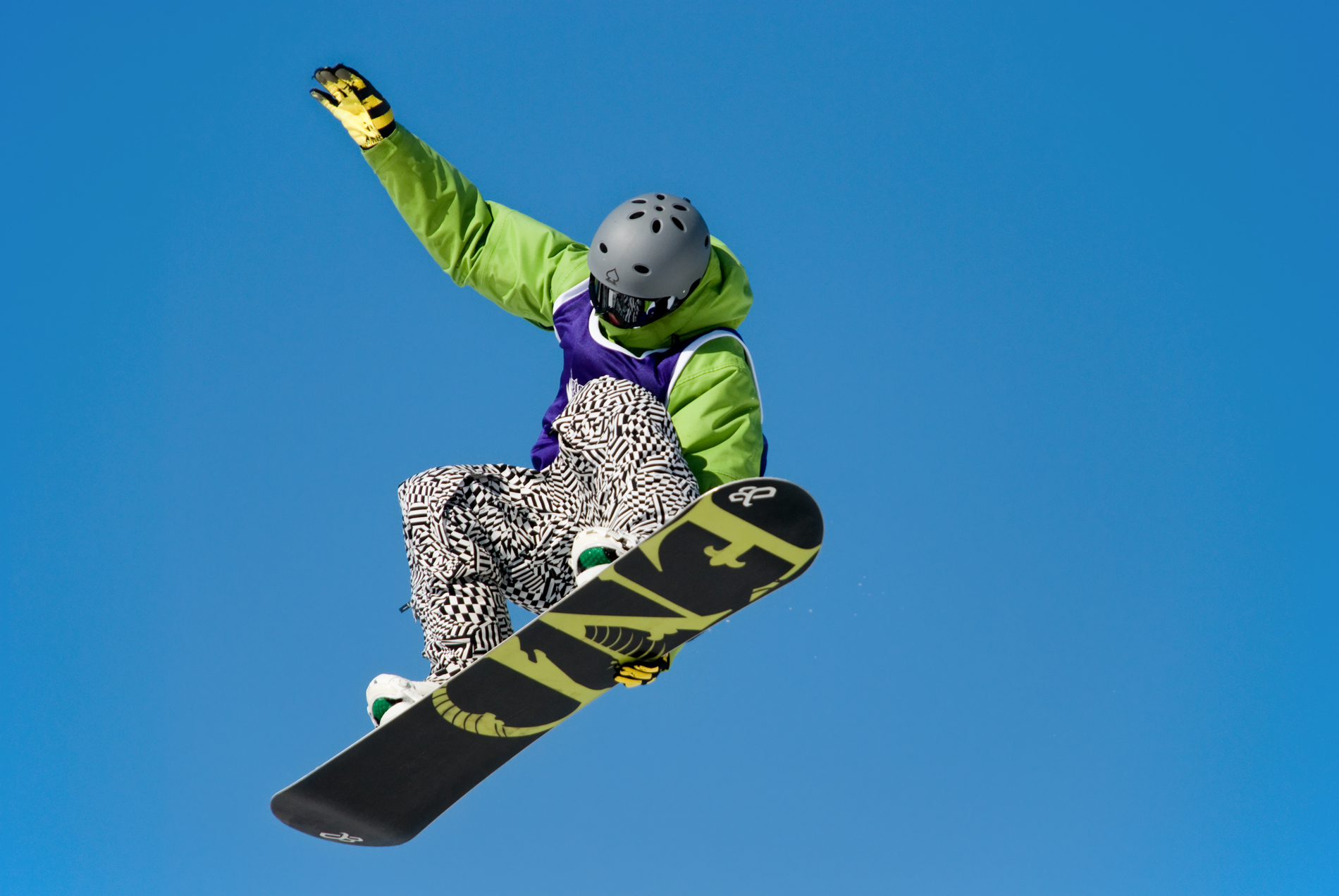 Snowboard figure at the 2008 Shakedown. Saint-Sauveur, Quebec (Canada).